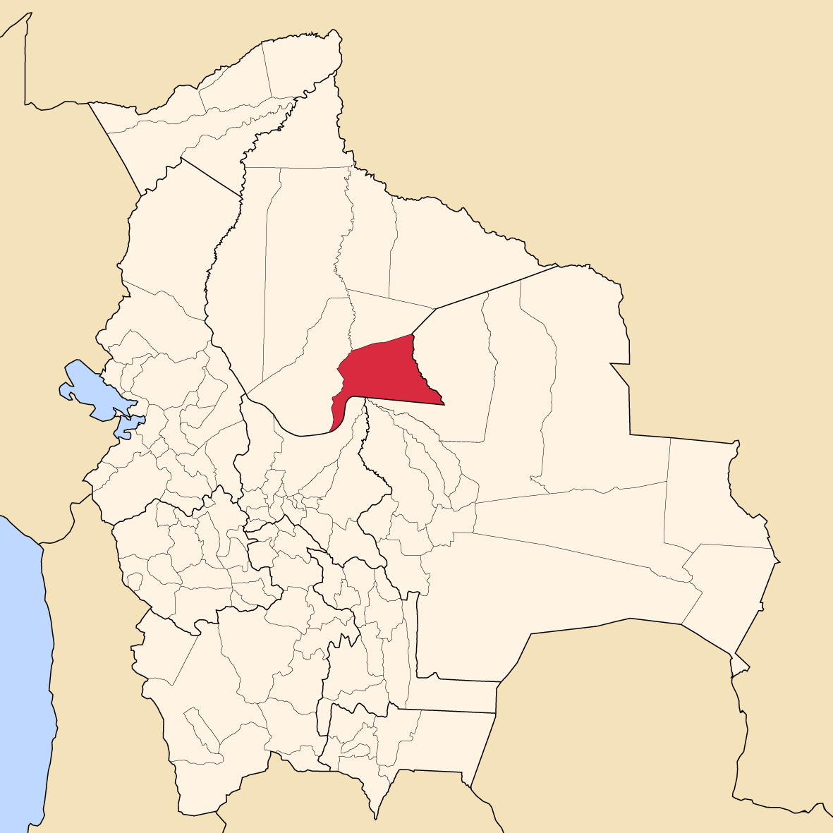 Map of Bolivia showing Marbán province, Beni